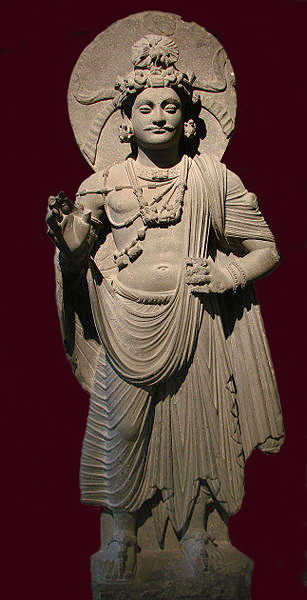 Standing Bodhisattva (Fr. Bodhisattva Debout). Pakistan, Gandharan art, site of Shahbaz-Garhi. The identity of the bodhisattva is not known, so the work is is simply titled "Standing Bodhisattva." The representation is of a standard bodhisattva of the Gandharan style, displaying the fearlessness mudra. No clear indicator identifies the figure as one bodhisattva or another. The Musée Guimet suggests that it may be Gautama or Avalokiteshvara.